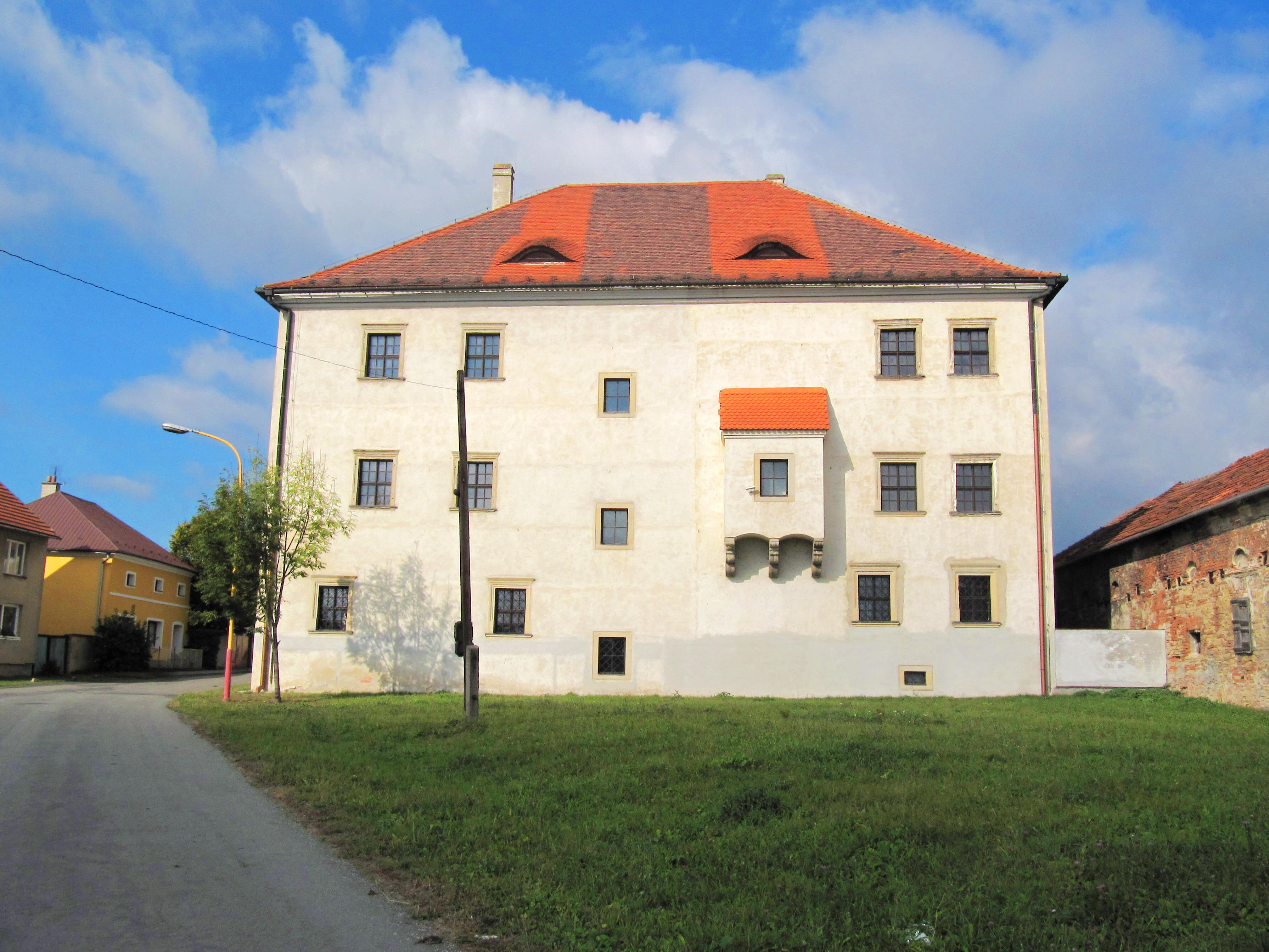 Rymice in Kroměříž District, Czech Republic. Mansion.